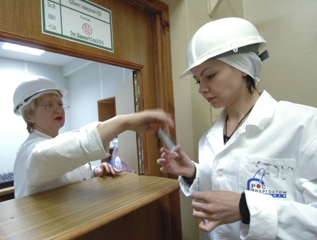 “Leningrad Nuclear Power Plant near St.Petersburg”. Getting an individual radiation measuring device from a radiation control service at the Leningrad Nuclear Power Plant located in the town of Sosnovy Bor on the southern shore of the Gulf of Finland.